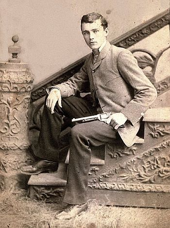 The outlaw Robert Ford (1860-1892), in an undated photograph by an unknown author reportedly posing with the weapon he used to assassinate Jesse James.